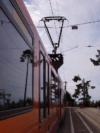 Offset pantograph on a train of the Uetlibergbahn. For more information, see Wikipedia article Uetlibergbahn.